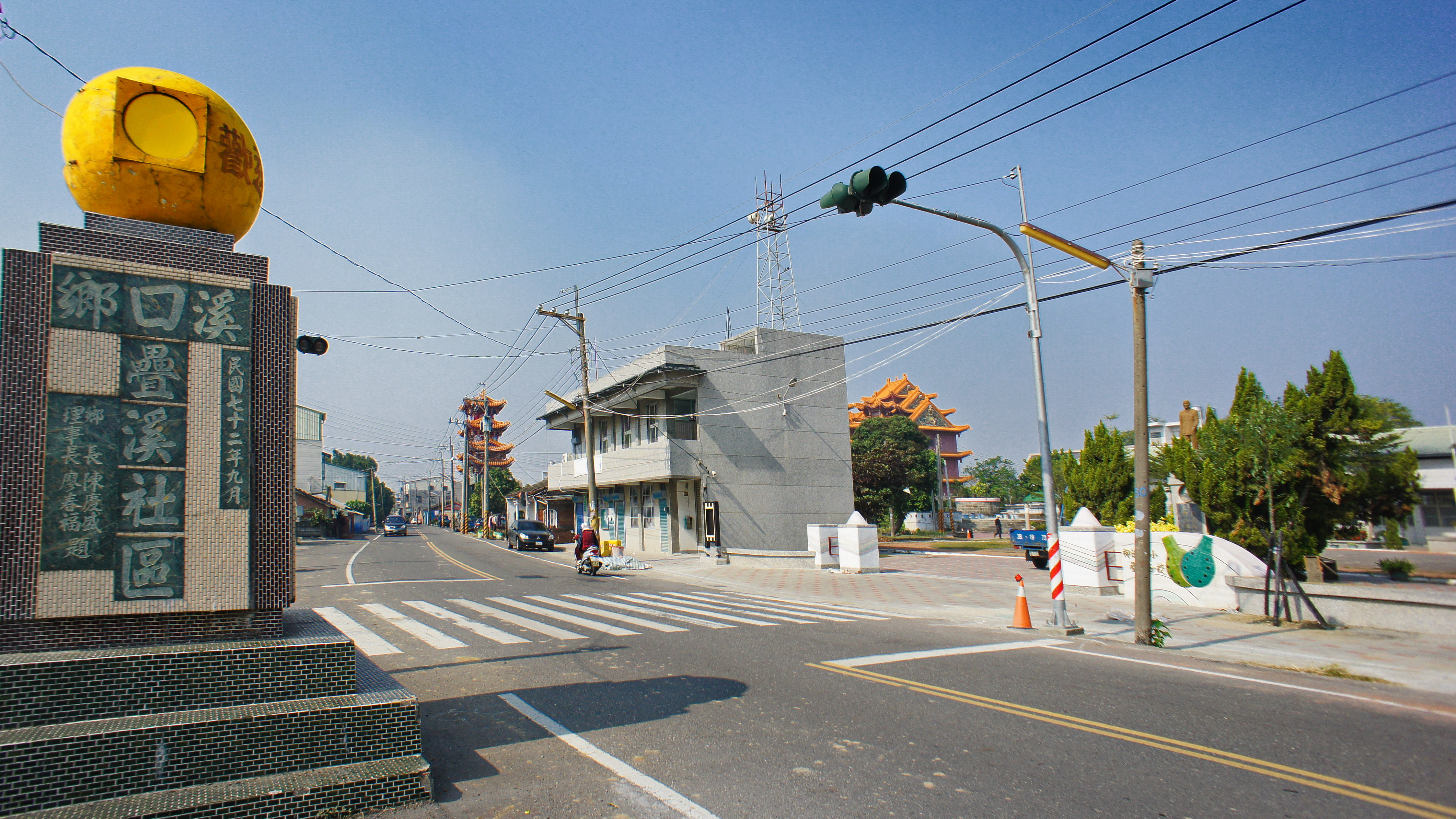 Liougou Village, Xikou Township, Chiayi County, Taiwan.